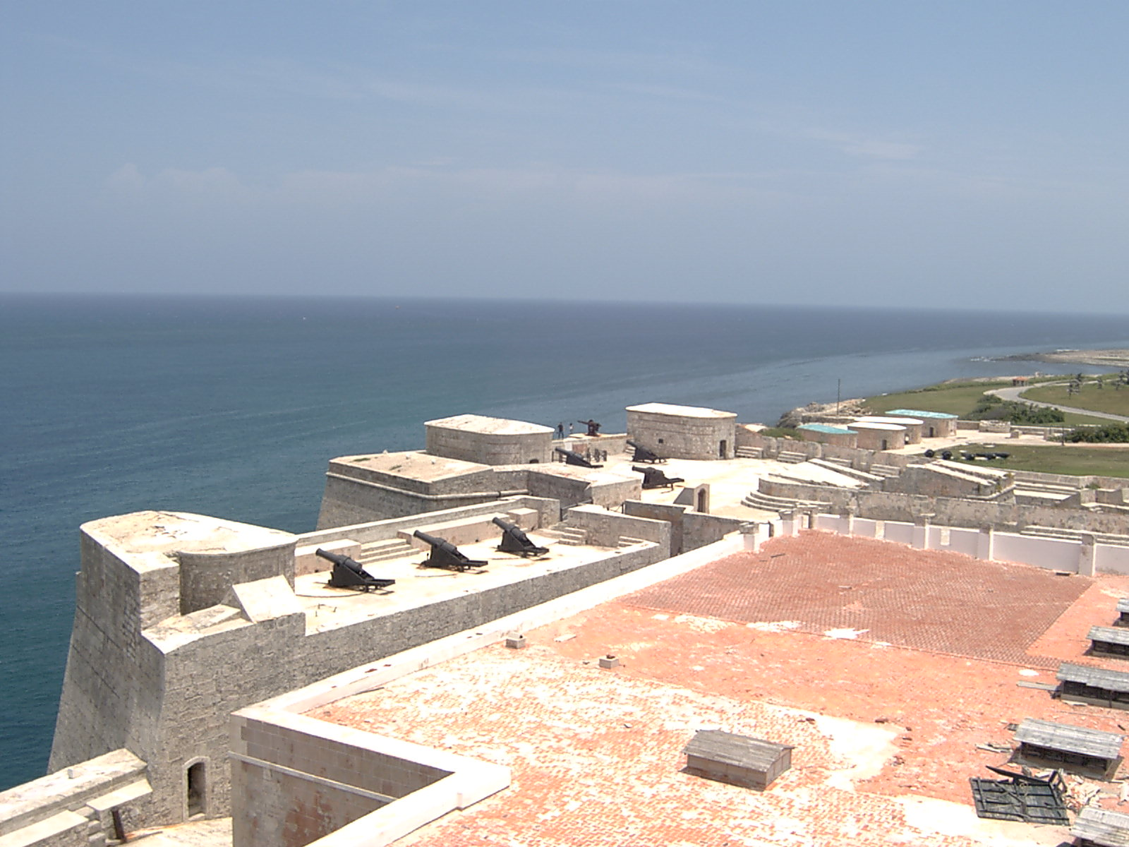 El Morro castle in La Habana